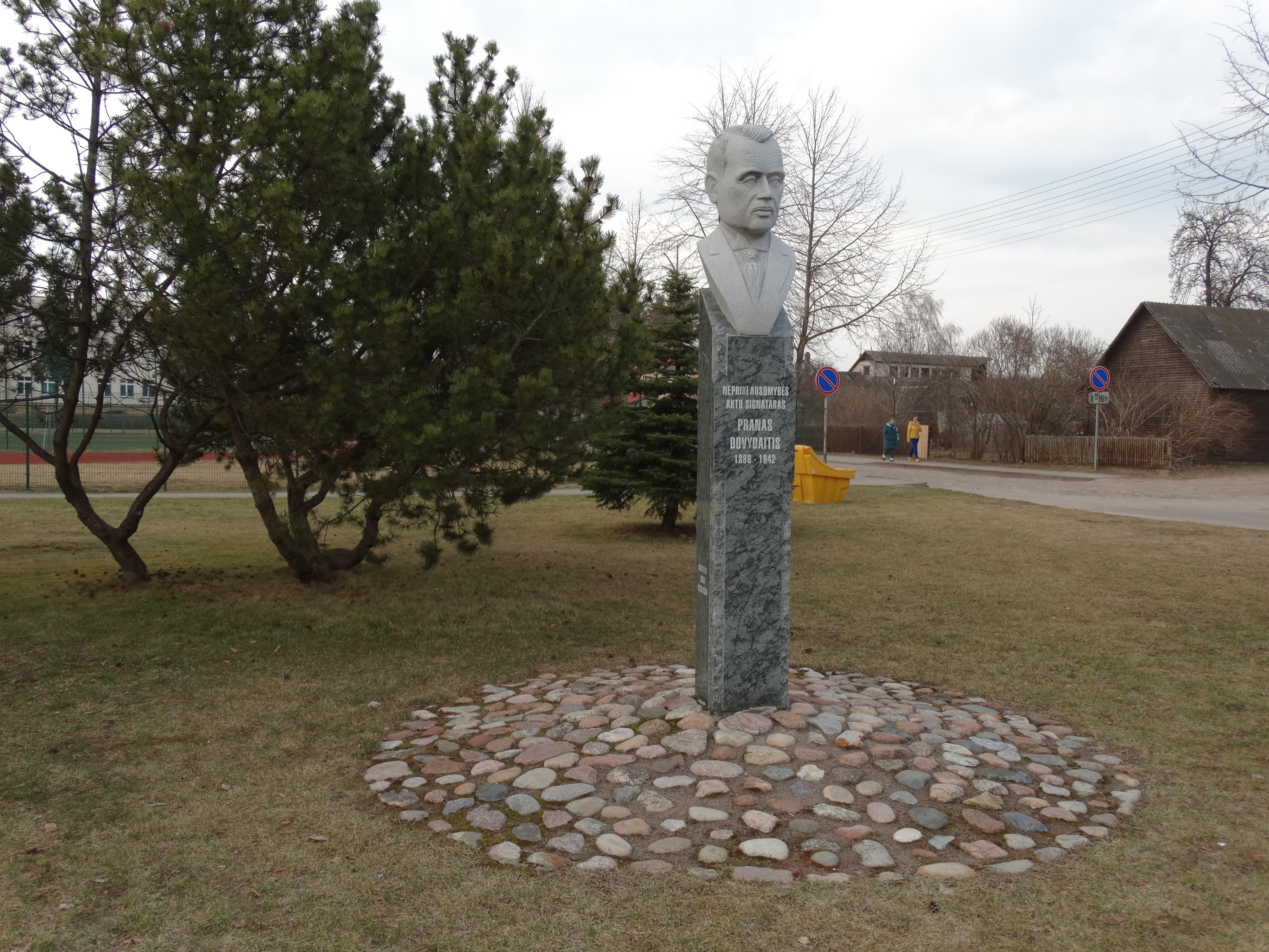 Pranas Dovydaitis, Kazlų Rūda, Lithuania